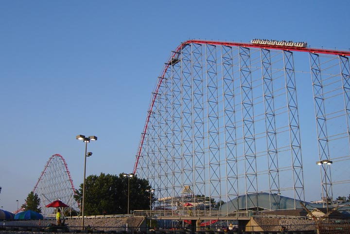 Ohio - Cedar Point 07-04-07 By:Mike Sharp.